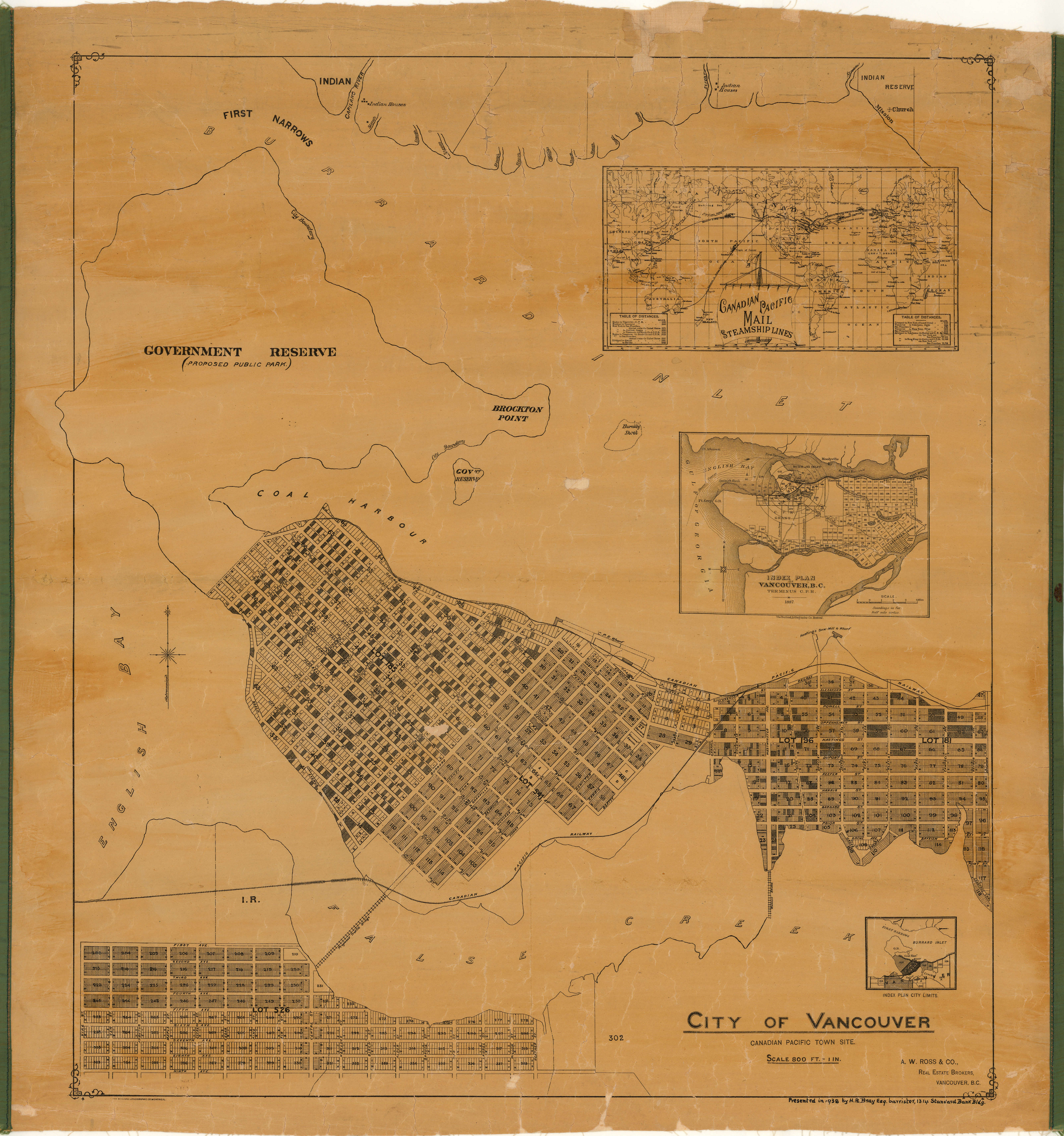 Map drawn in 1887